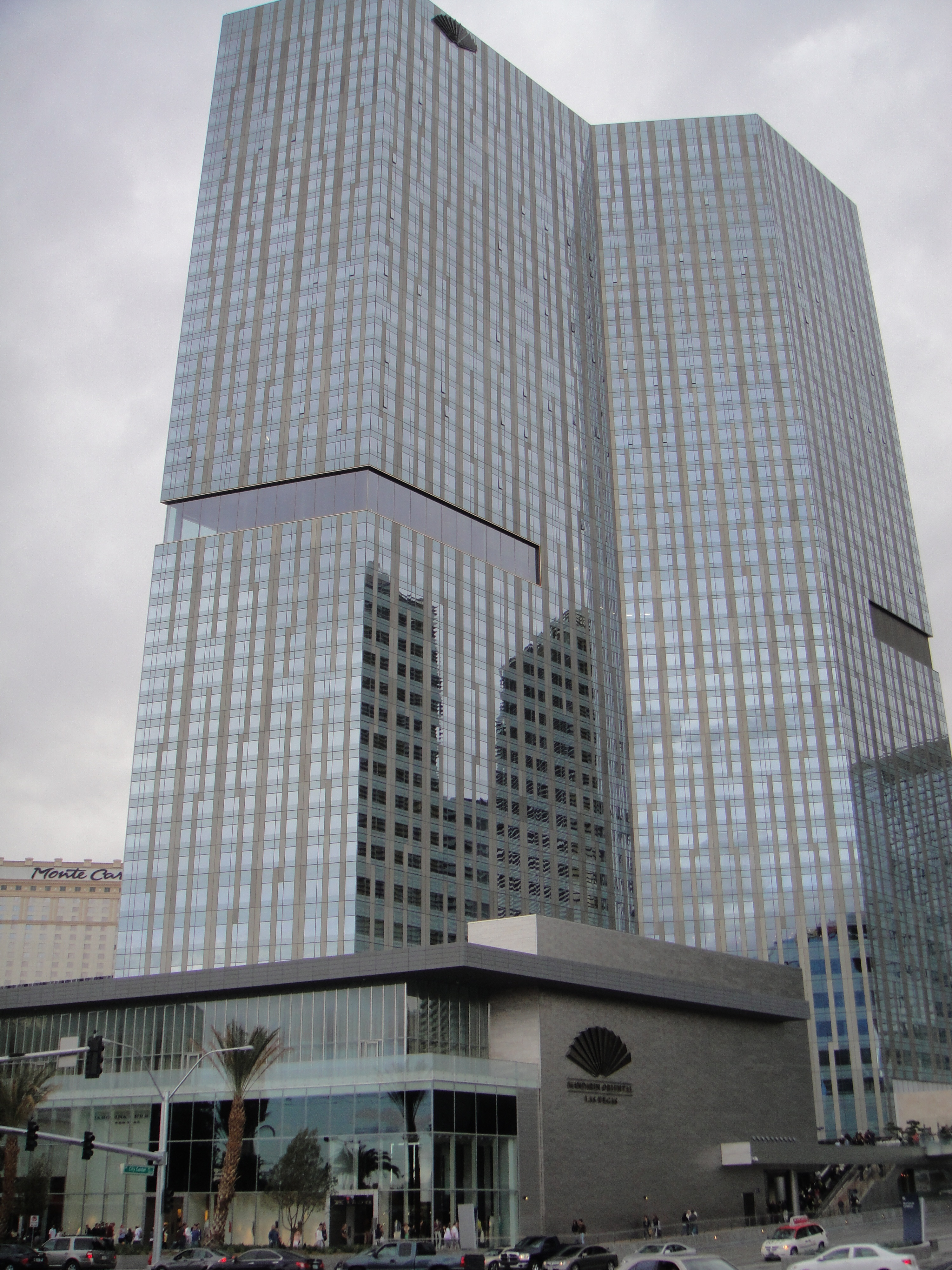 Photo of the Mandarin Oriental hotel along the Strip in Las Vegas, Nevada